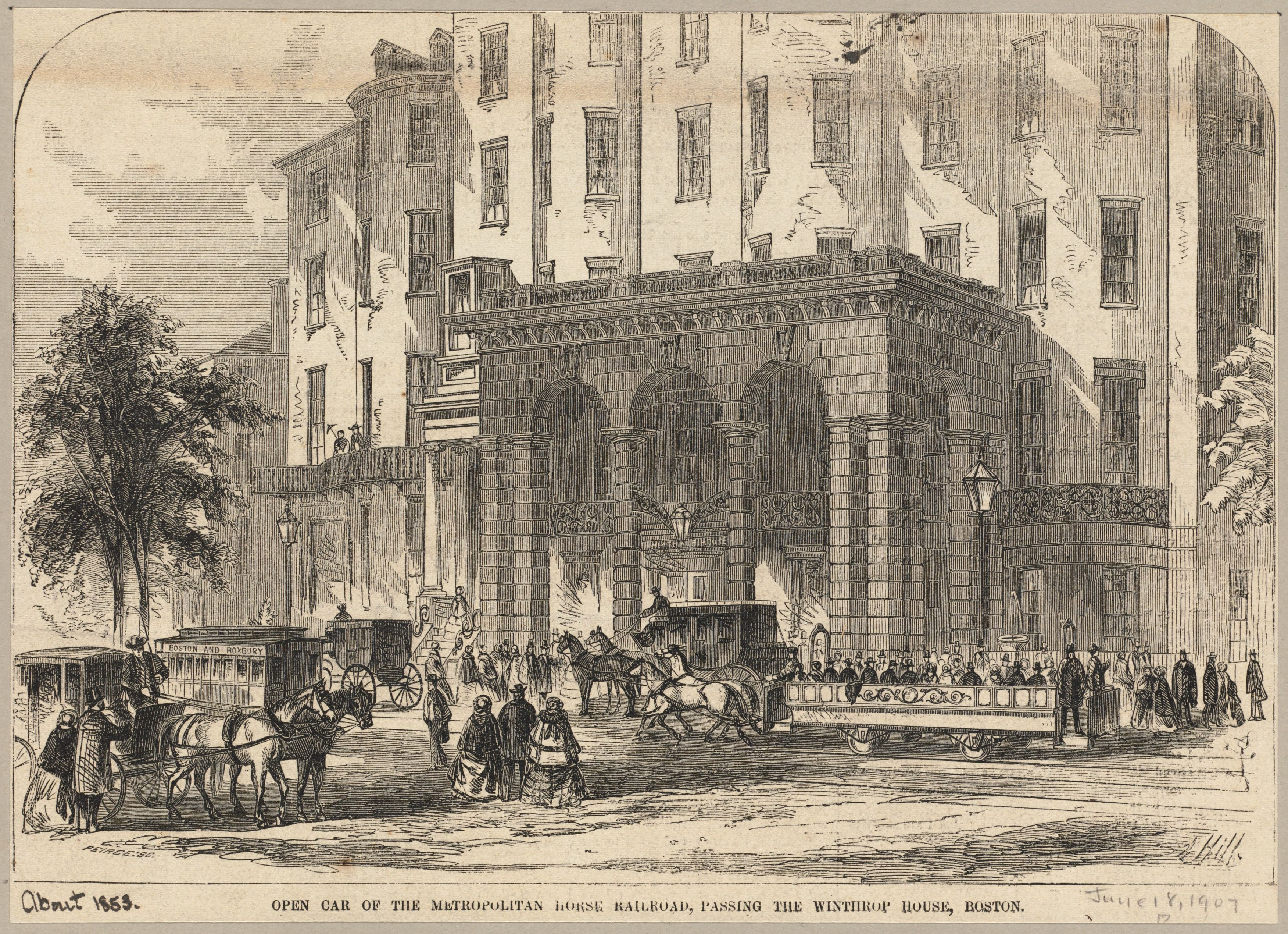 Open car of the Metropolitan Horse Railroad, passing the Winthrop House at the corner of Tremont and Boylston streets, Boston, in 1857. Cropped version of [1].